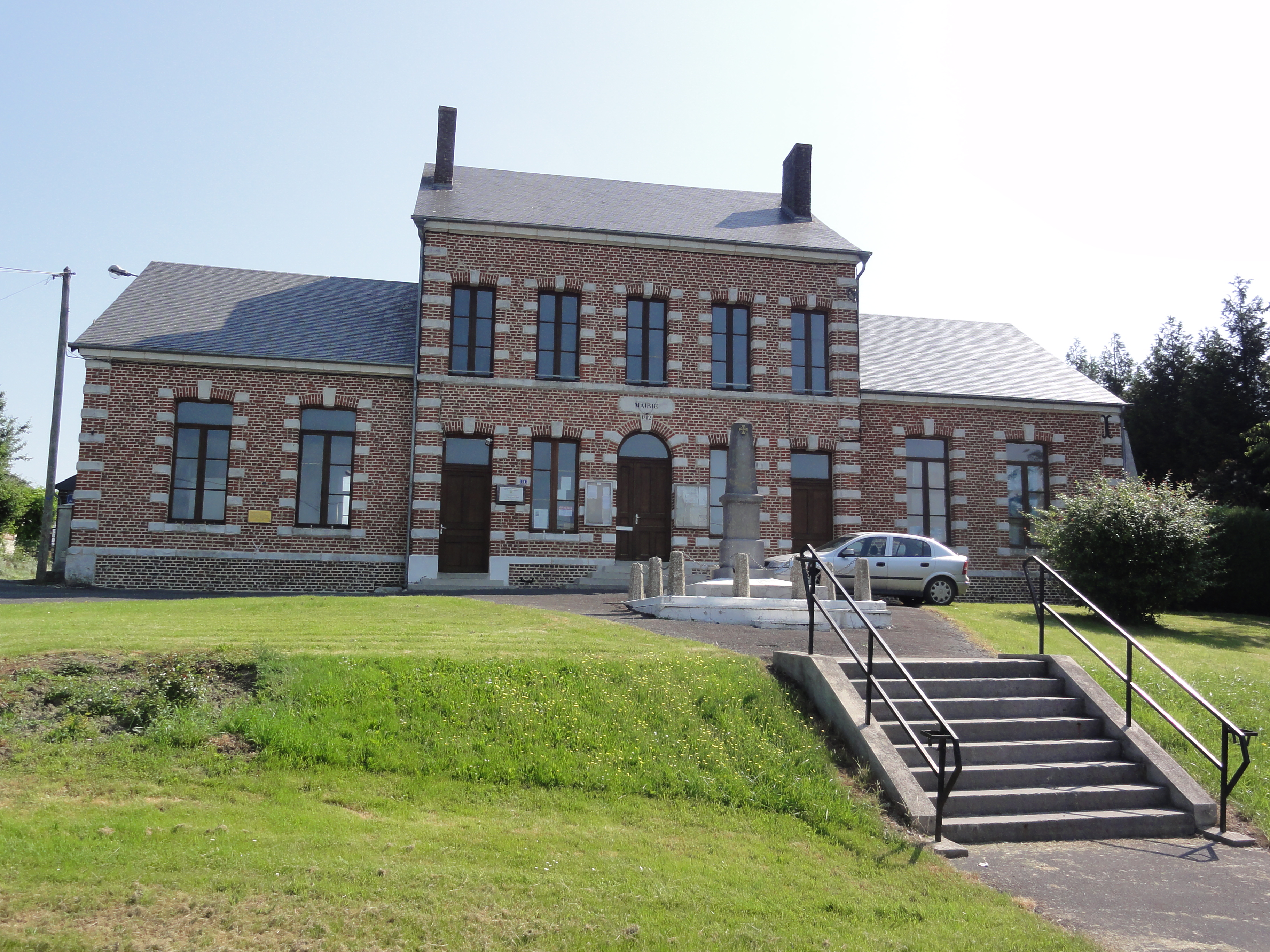 Saint-Jean-aux-Bois (Ardennes) Mairie